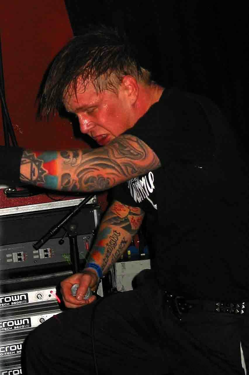 Andre Moraweck (Maroon)